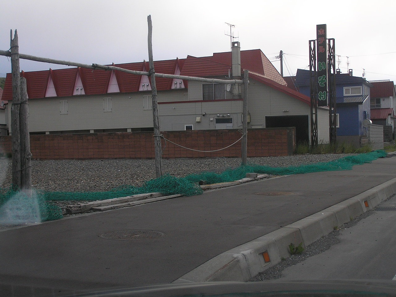 The northernmost love hotel in Japan(Wakkanai, Hokkaidō)